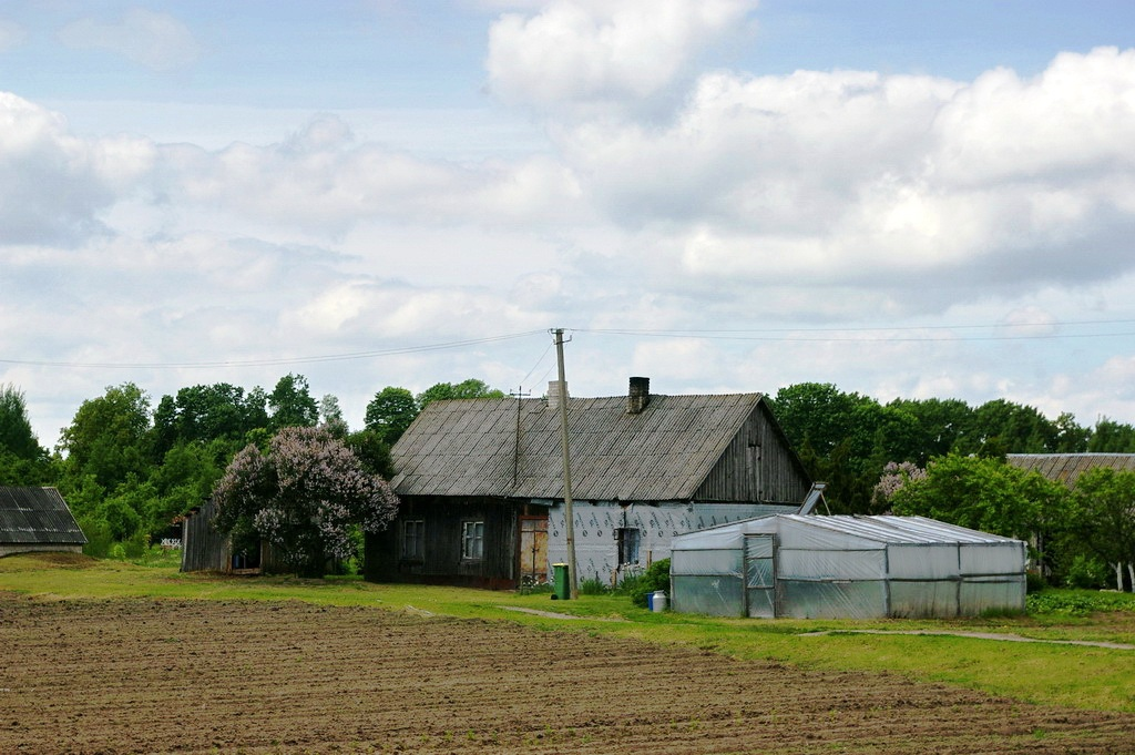 Steward's house оf the former Stanislava manor, Kaunas district, Lithuania